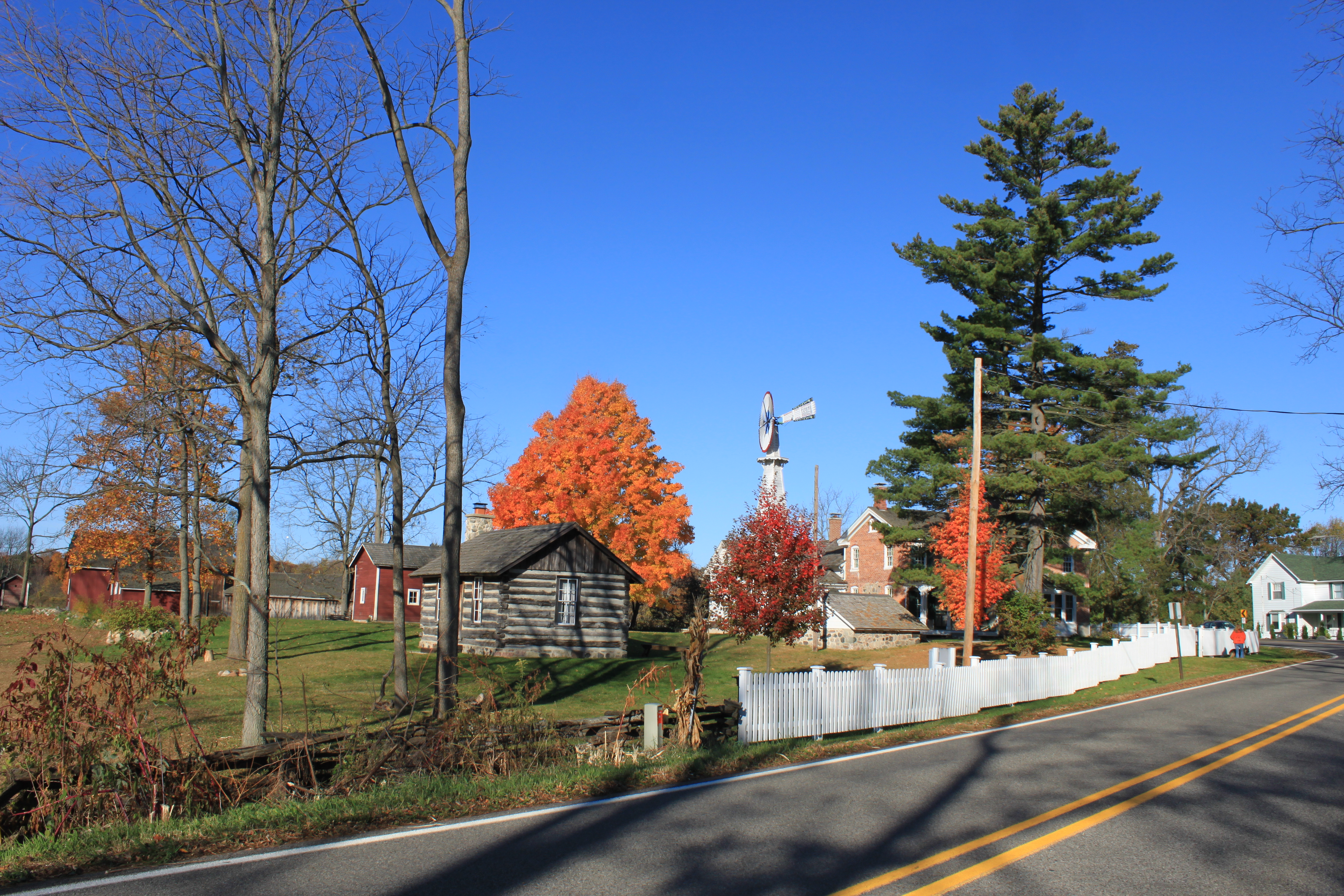 Waterloo Farm Museum — Waterloo Township, Waterloo Munith Road - Michigan.